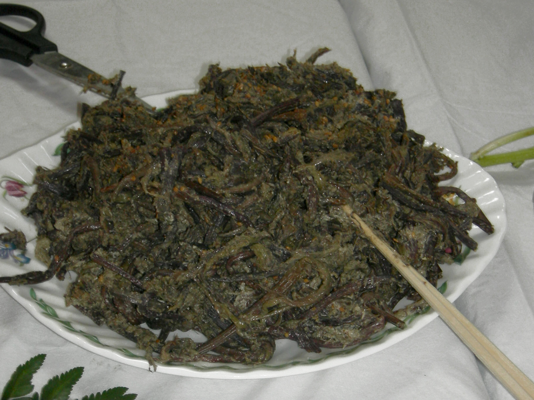 Korean sesame-infused fern dish, at Korean Cultural Celebration, part of the Festál series of ethnic events at Seattle Center, Seattle, Washington, U.S. This is gosari (bracken fern). 들깨찜 고사리나물